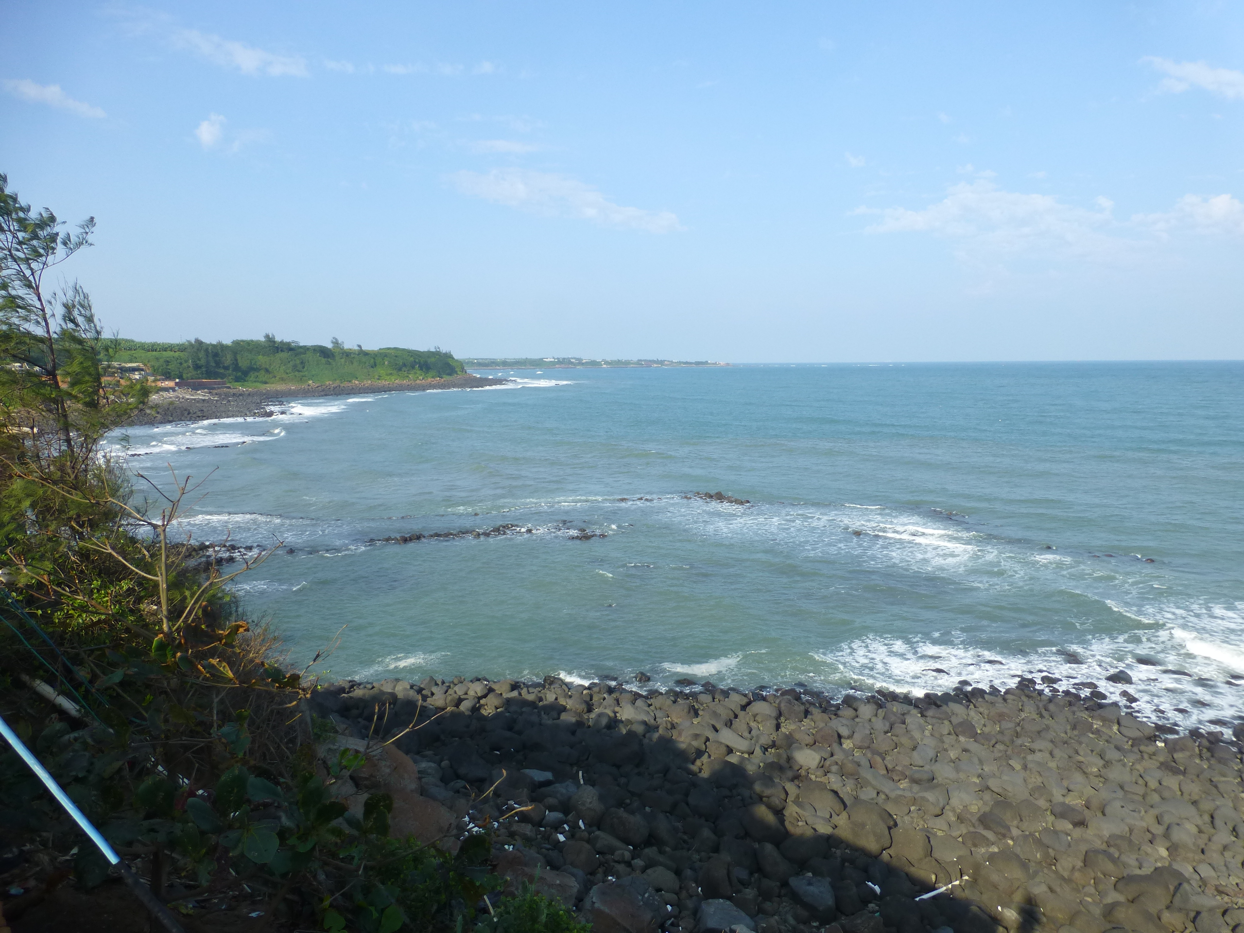 The Nayan Bay area of Naozhou Island